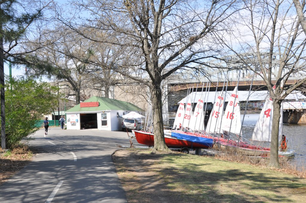 The sailing pavilion of Boston University on the Charles River in Boston, Massachusetts.